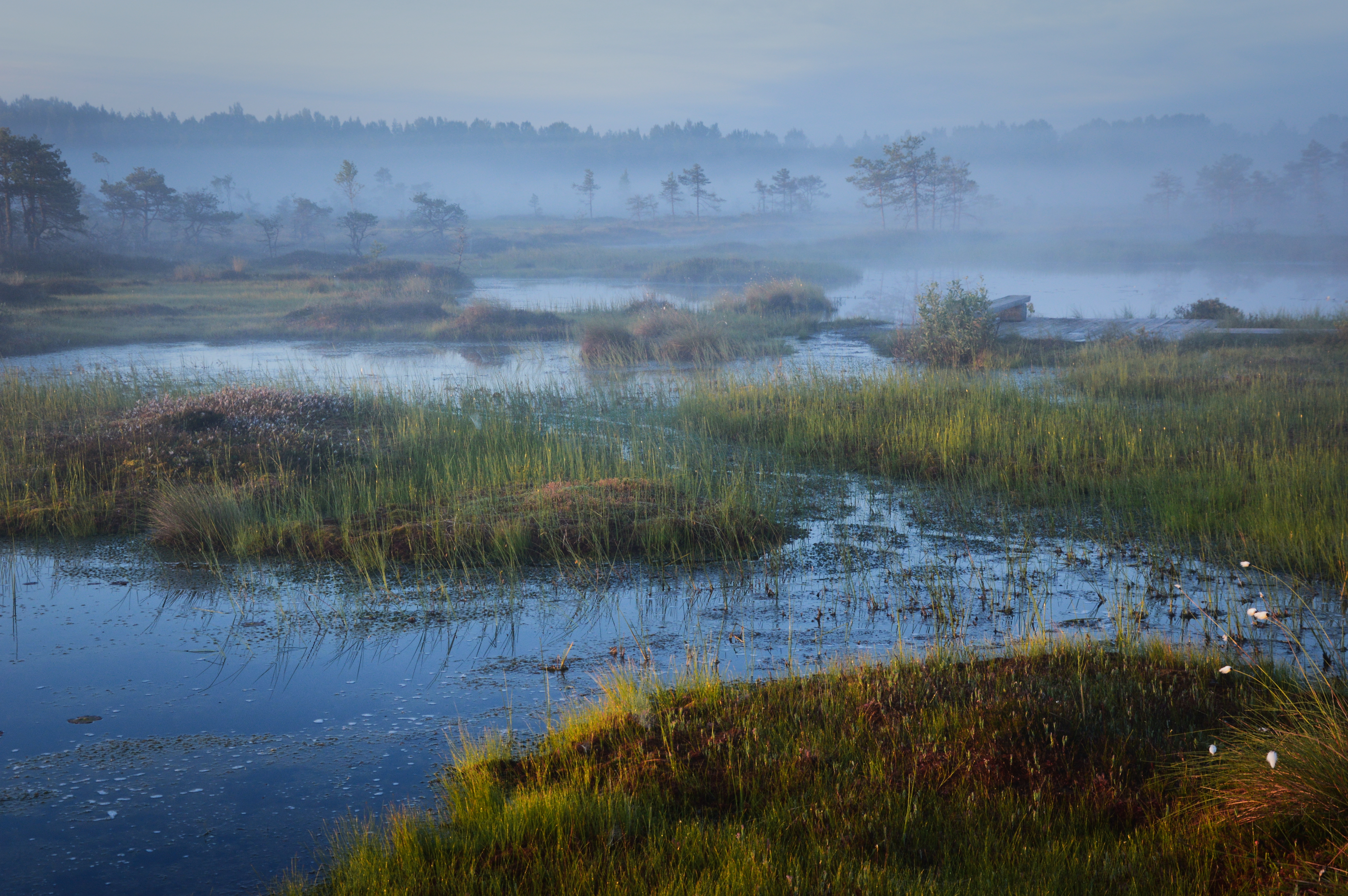 Riisa Bog (Soomaa, Estonia) on early morning hour